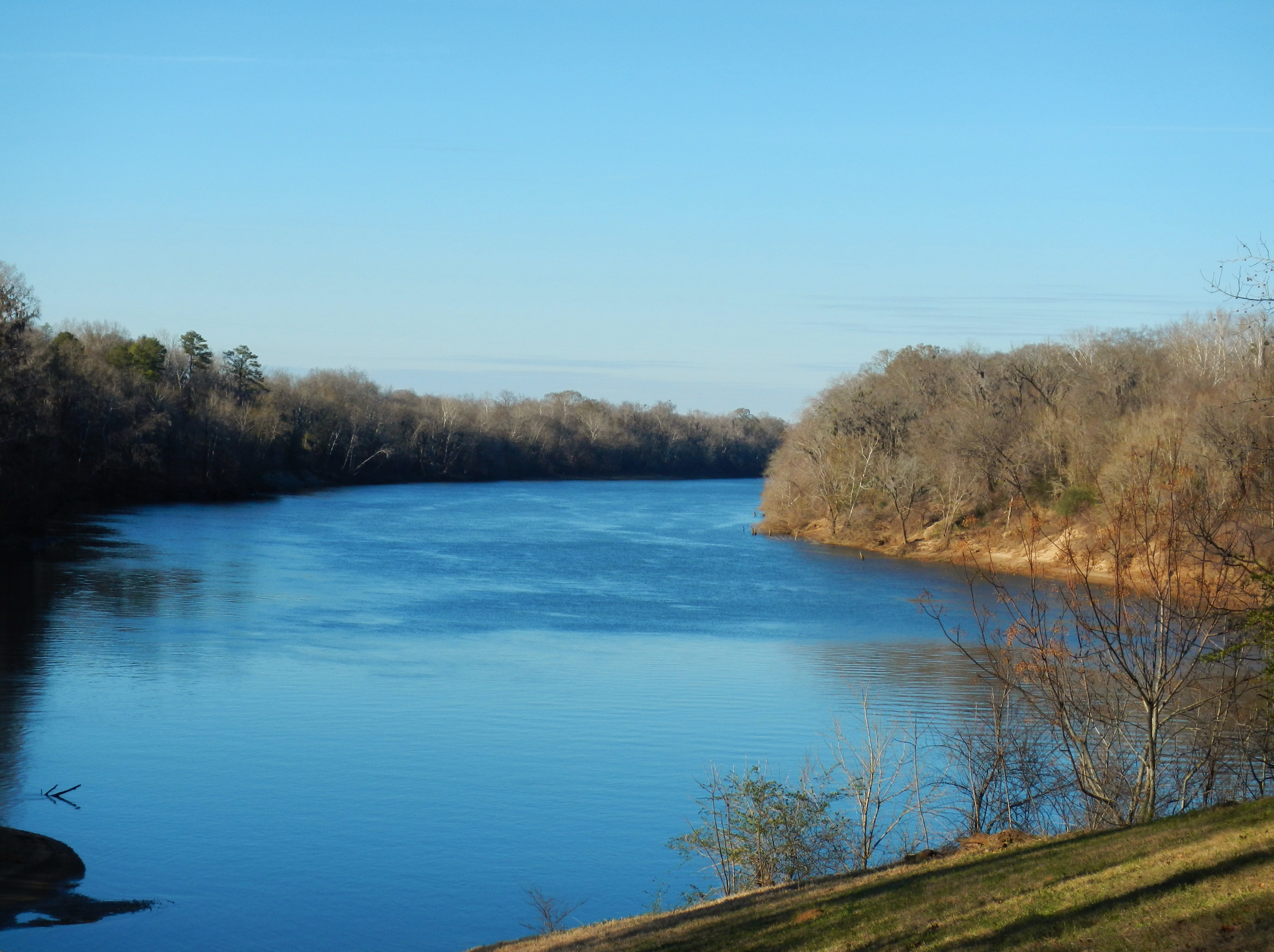 This is a photograph of the Alabama River as seen from Benton Park in Benton, Alabama.